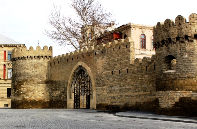 Old city baku azerbaijan